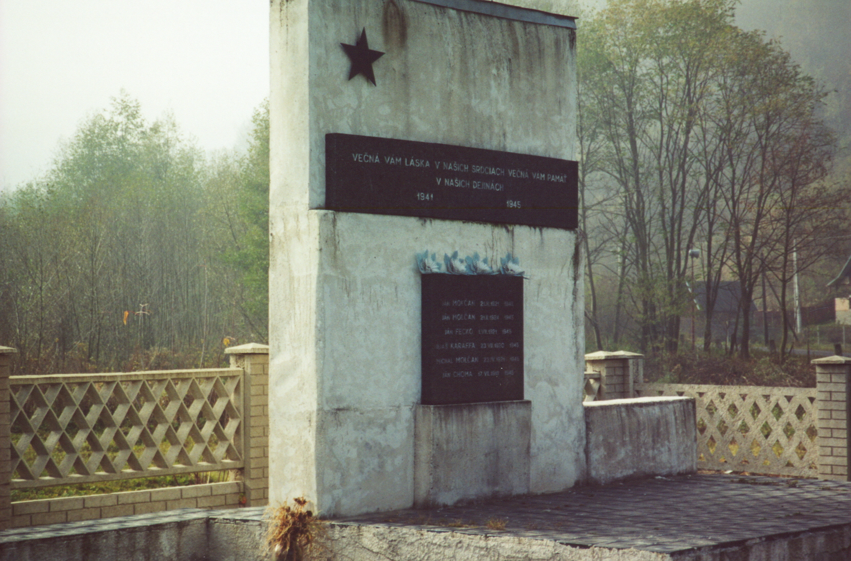 World War 2 Partisan Monument in Livov, Slovakia Inscribed: VEČNÁ VÁM LÁSKA V NAŠICH SRDCIACH VEČNÁ VÁM PAMÁŤ V NAŠICH DEJINÁCH 1941 1945 Ján Molčan March 21, 1921 - 1945 Ján Molčan February 21, 1924 - 1945 Ján Fecko July 1, 1921 - 1945 Iliaš Karaffa July 23, 1921 - 1945 Michal Molčan April 23, 1921 - 1945 Ján Choma July 17, 1919 - 1945 (approximate translation}: Forever is your love in our hearts forever we remember you in our history